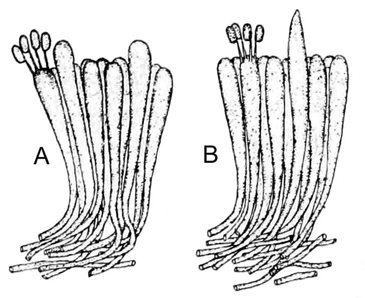 Section through the hymenium of the fungus Panellus stipticus. (A) Basidia and attachment of basidiospores. Figure also shows cystidia. (B) Shows a cystidium with a pointed end.